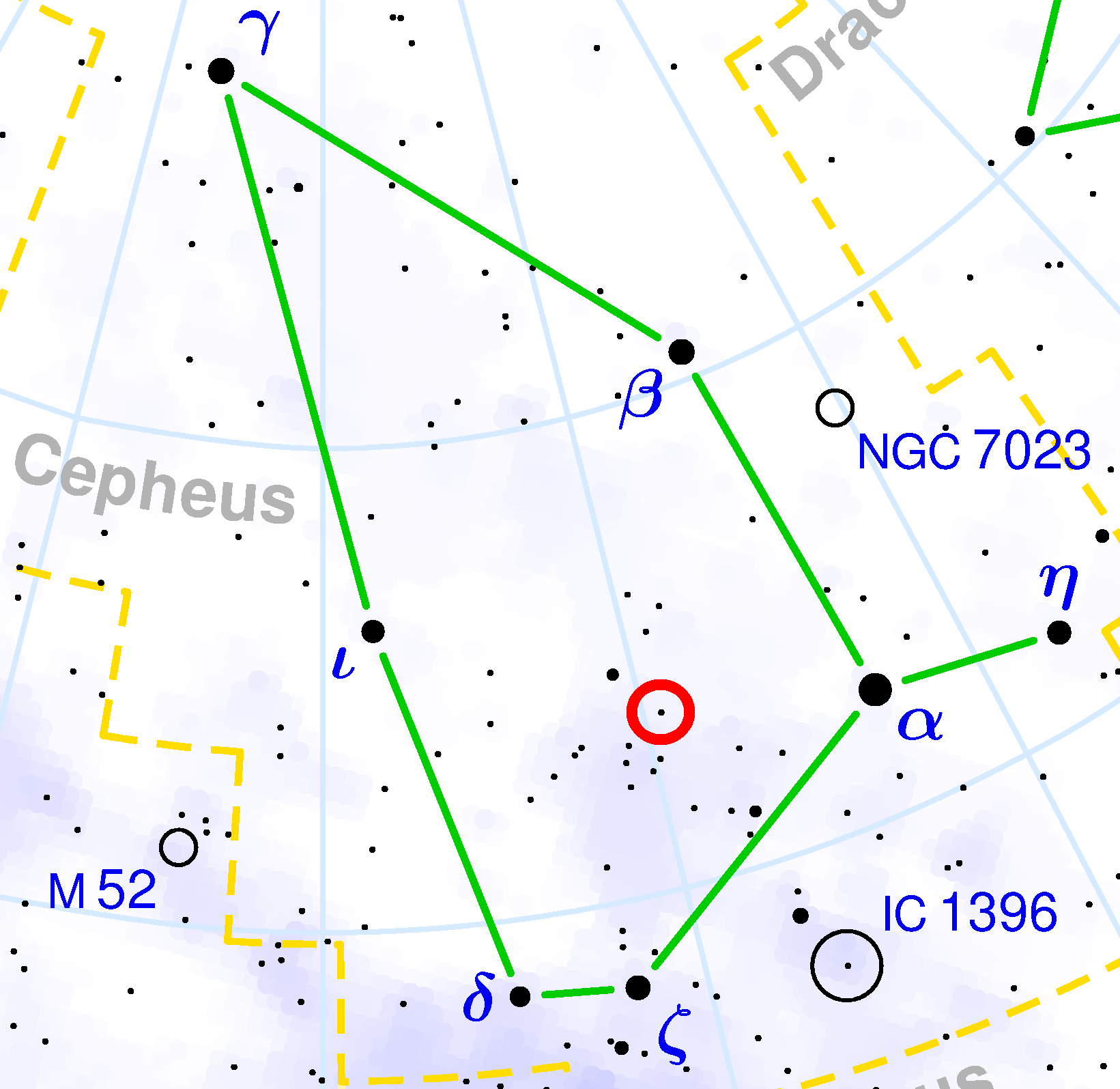 This is a cropped celestial map of the constellation Cepheus with a red cirlce surrounding the eclipsing variable VV Cephei.